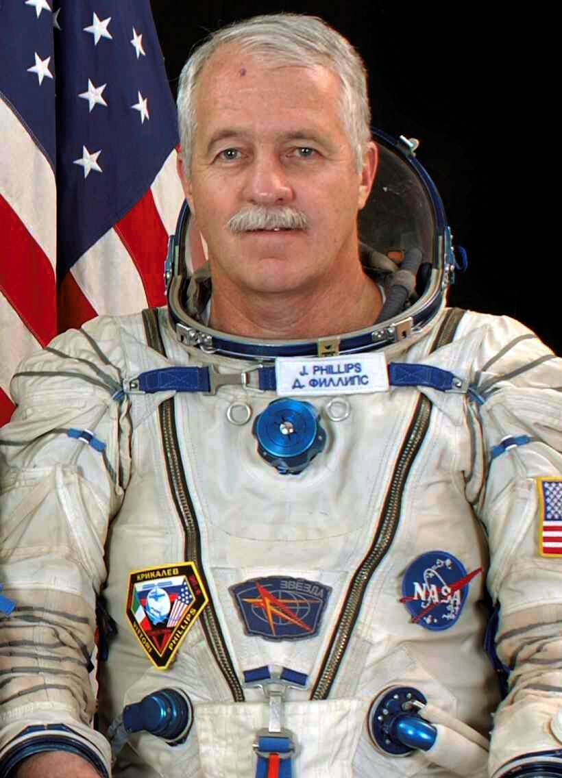 Astronaut John Phillips